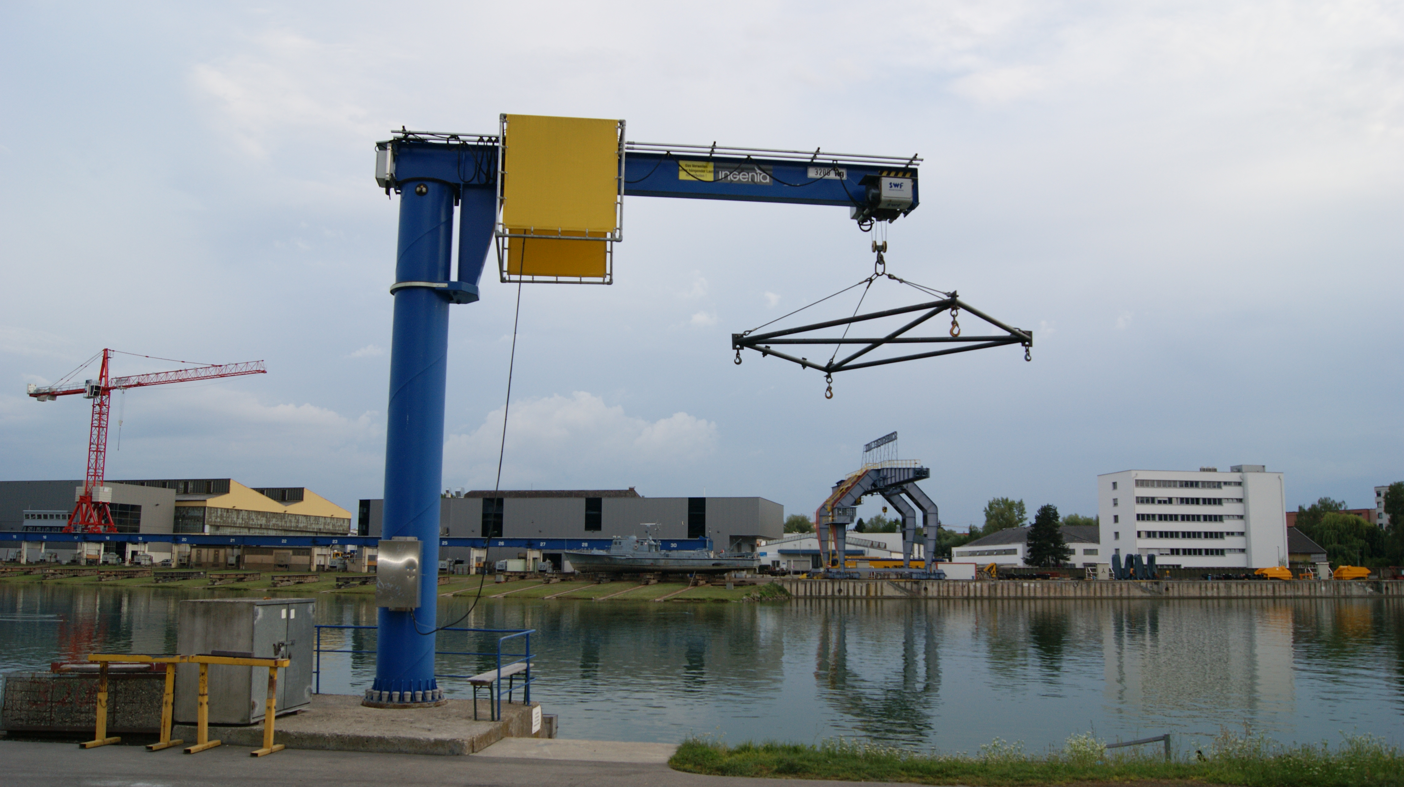 Austrian shipyards AG (ÖSWAG) in Linz (Upper Austria) at the winter harbor.